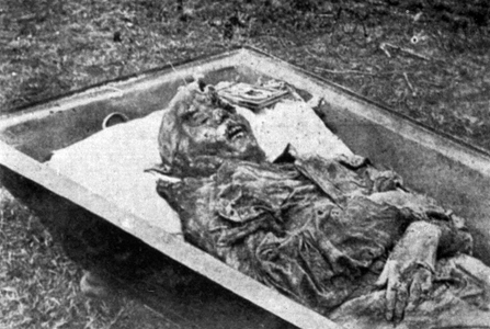 Photo № 143. Corpse of Countess A. Hendrikova found in Perm.